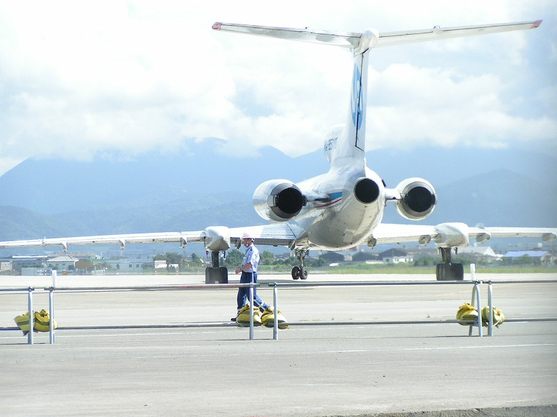 Vladivostok Avia Tu-154M(RA-85710) an Matsuyama(RJOM)(06.09.18)